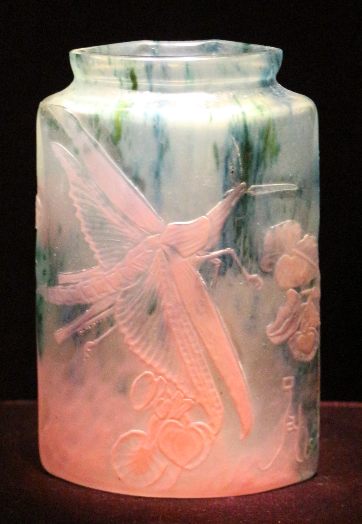 Glassware in the Cleveland Museum of Art